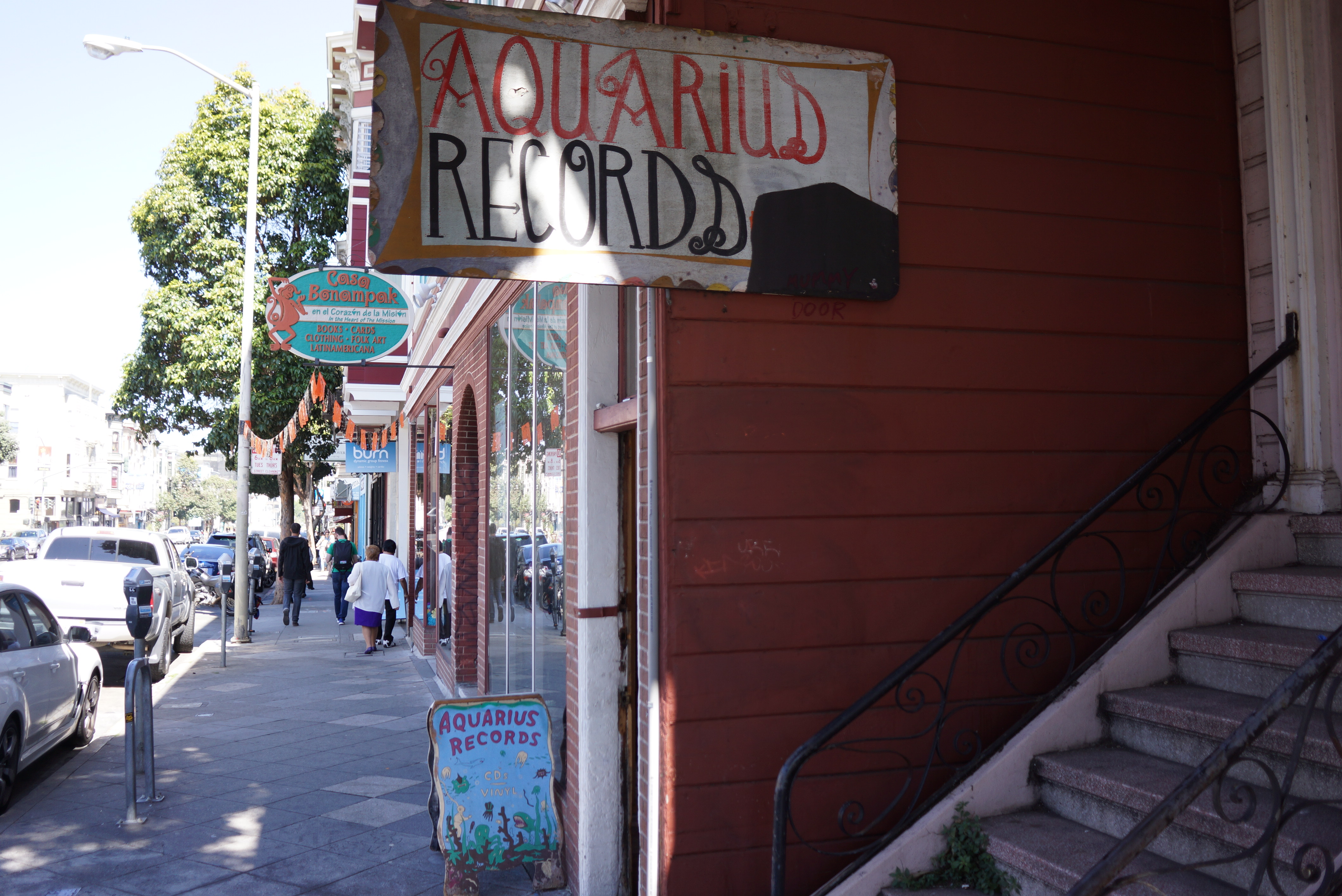 Aquarius Records Store front sign